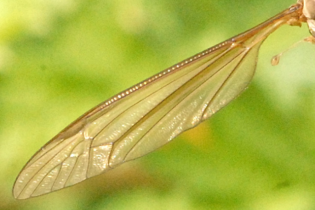 Picture taken in Commanster, Belgian High Ardennes . Species: Tipula paludosa, wing detail